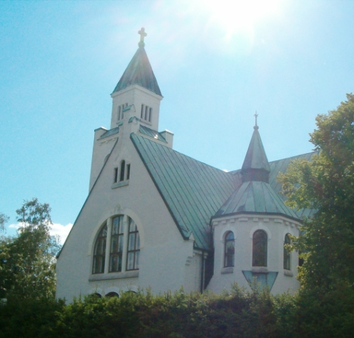 Joutseno Church in Joutseno, South Karelia, Finland. Completed in 1921. Architect: Josef Stenbäck.